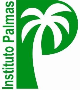 Instituto Palmas Logo